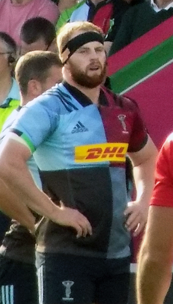 James Chisholm warming up for Harlequins.